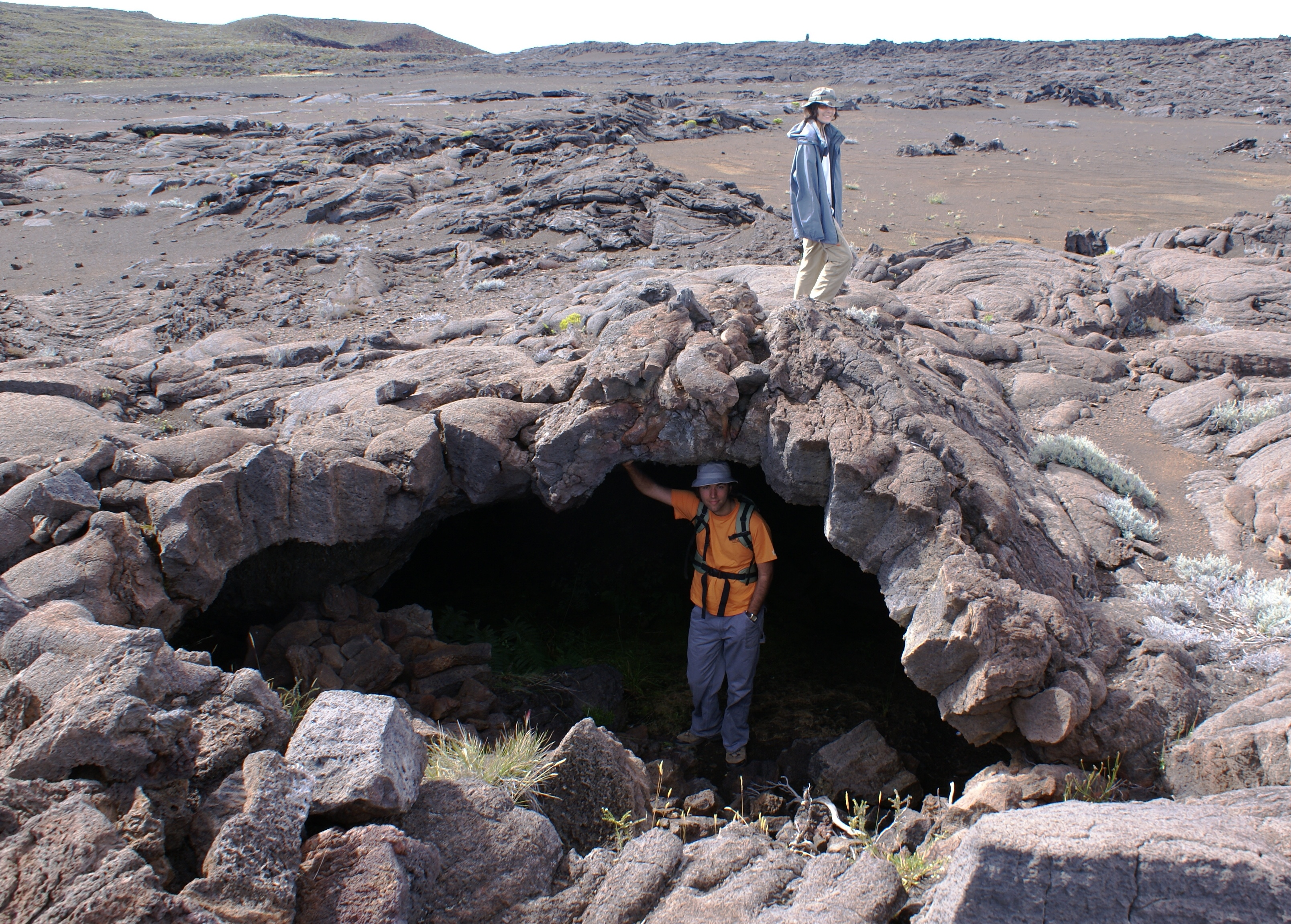 A lava tube at Piton Chisny, near the Piton de la Fournaise (Réunion island